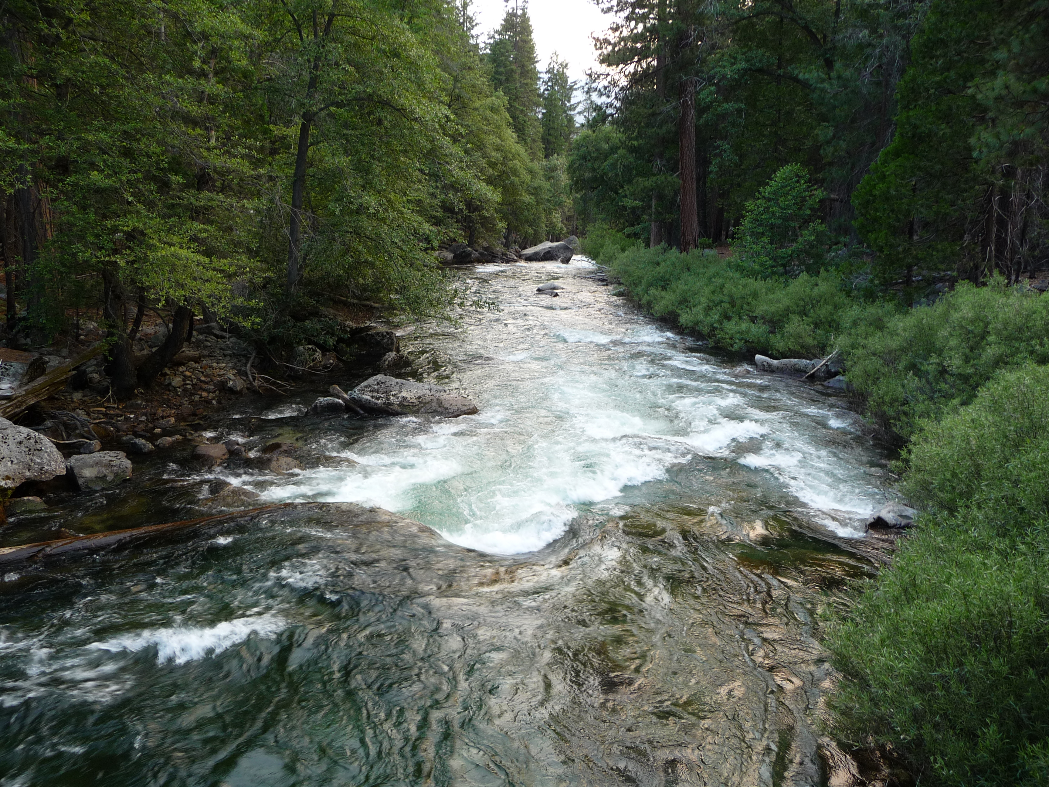 Kings Canyon National Park - Kings River near Zumwalt Meadow